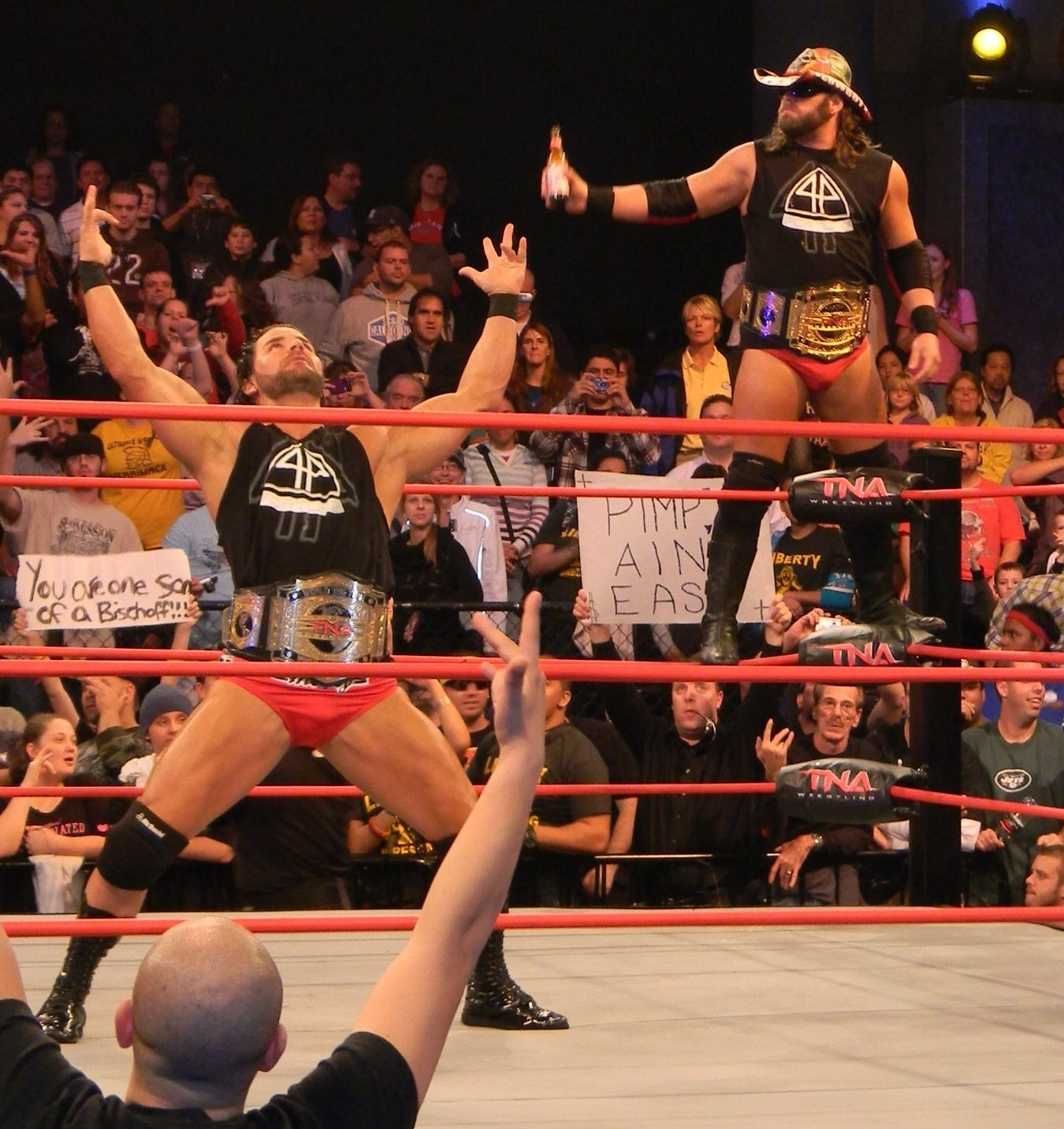 Beer Money poses wearing the TNA World Tag Titles before a title defense on Impact.